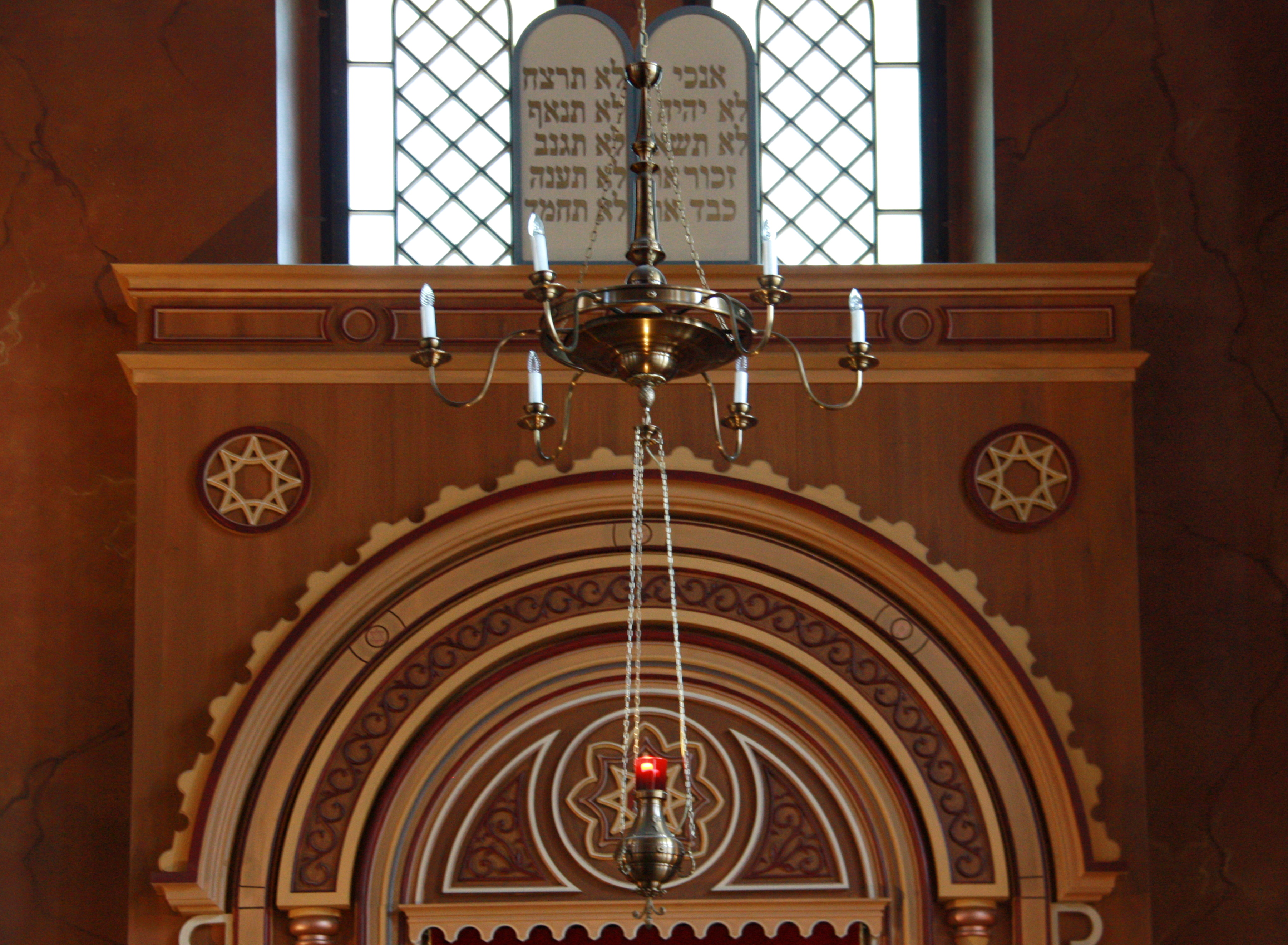 Interior of Krnov synagogue, Bruntál District, Moravian-Silesian Region, Czech Republic